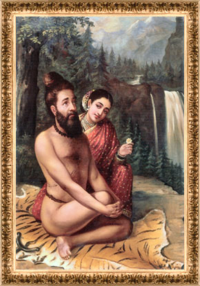 Raja Ravi Varma Paintings in Baroda